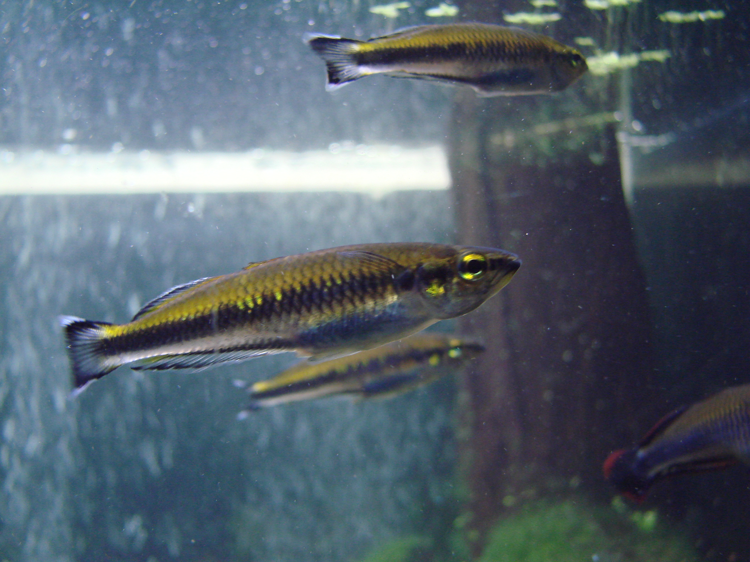 Picture taken in the zoo of Wrocław (Poland): Bedotia geayi (Pellegrin, 1907)